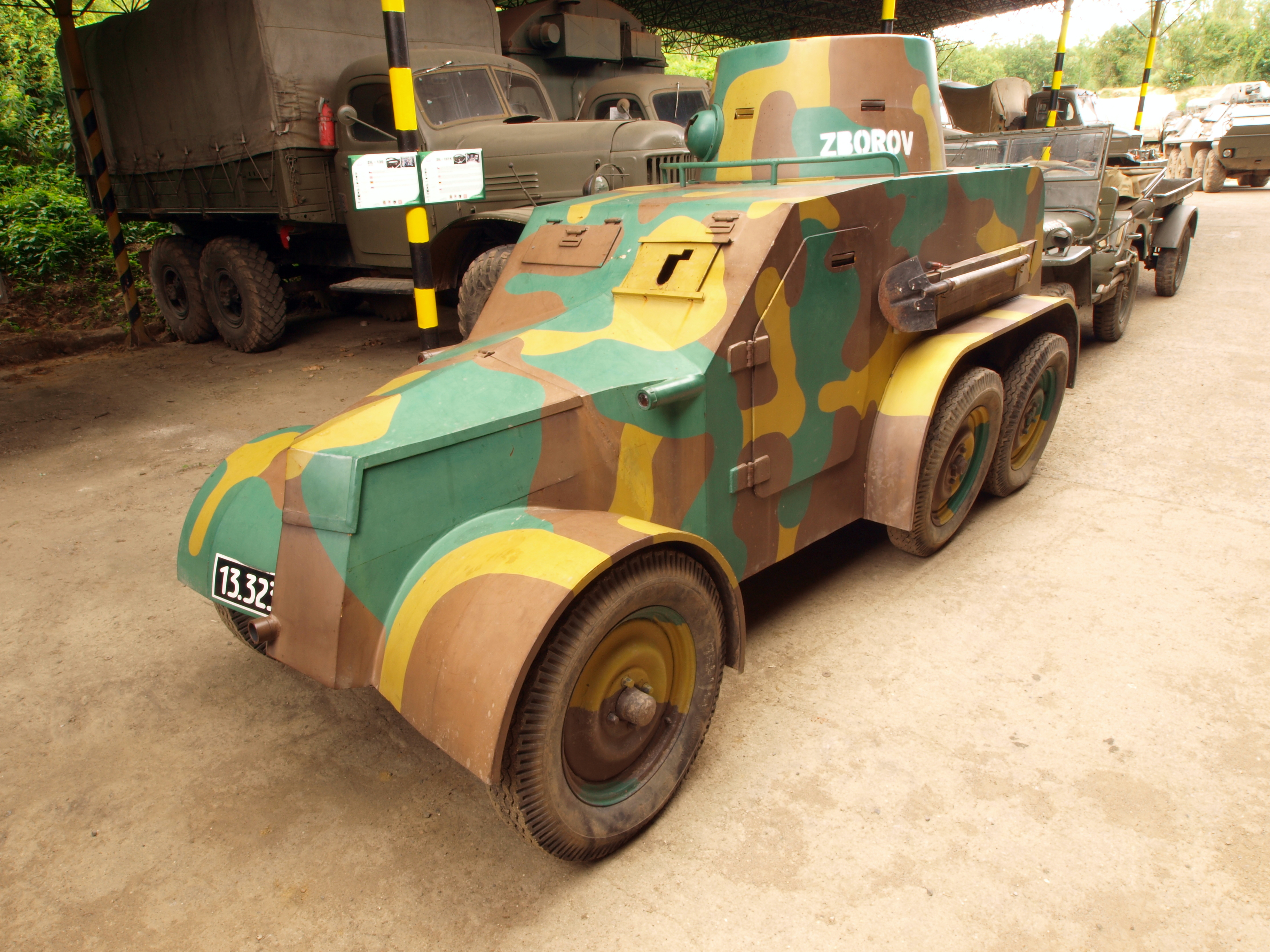 Replica of a light armored car of Czech Army OA vz. 30.